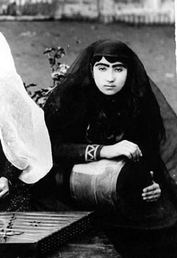 Qajari woman playing tonbak